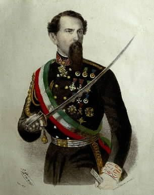 Italian general Enrico Cialdini (1811-1892)